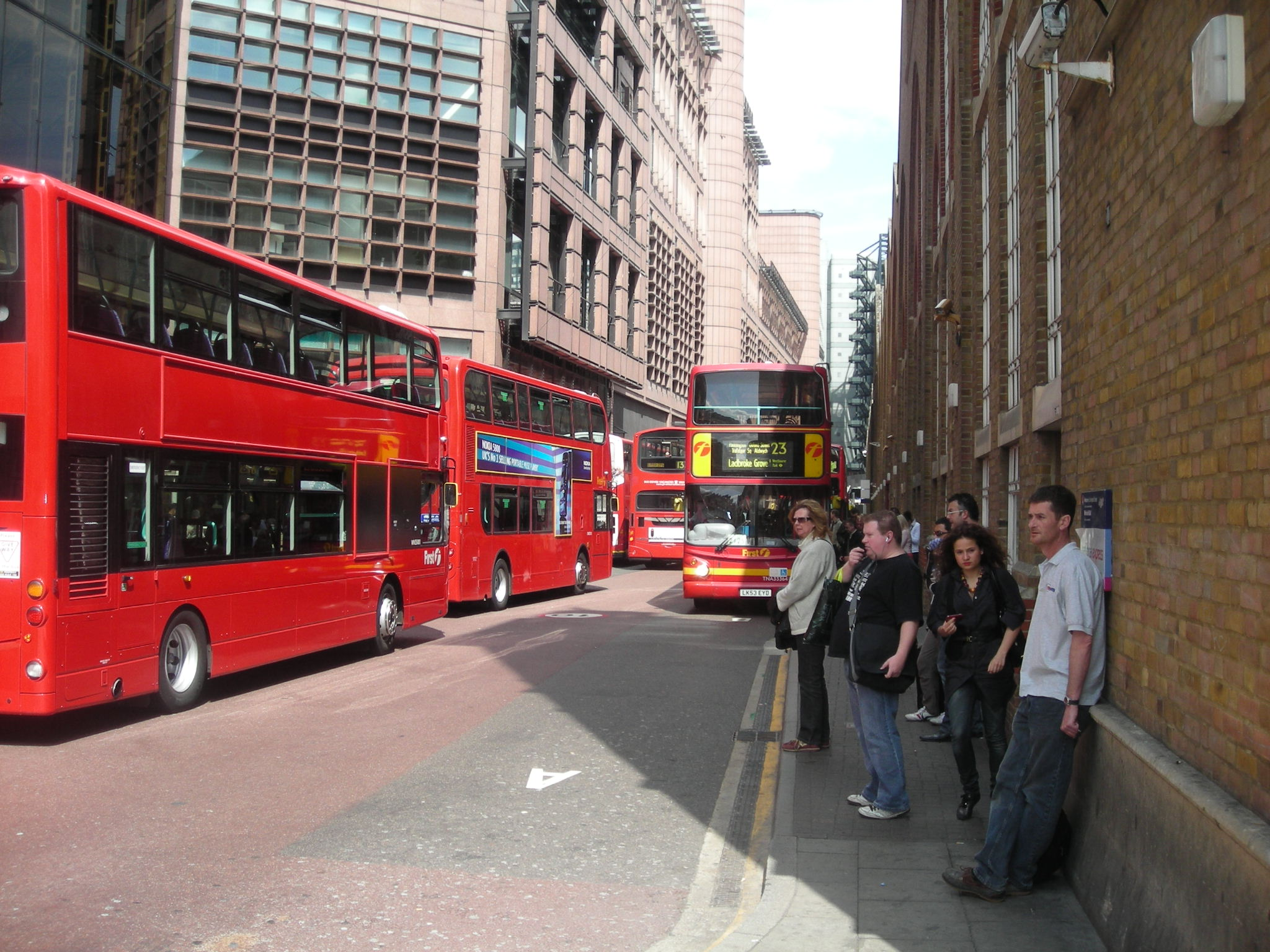 Liverpool Street Bus Stn